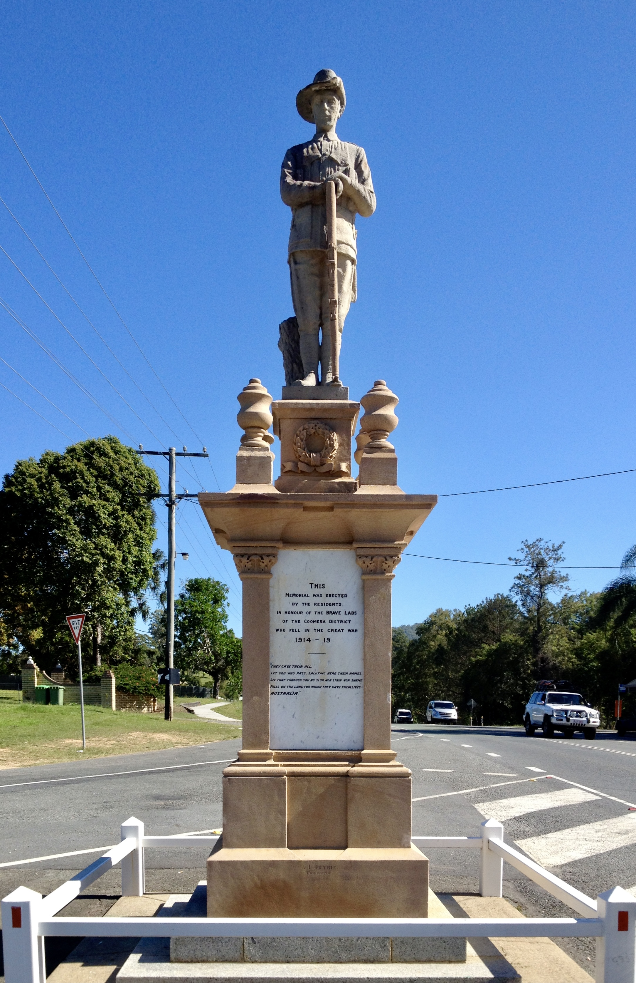 Upper Coomera Shire War Memorial, Tamborine-Oxenford Road crn Charlies Crossing Road North, Upper Coomera, Queensland